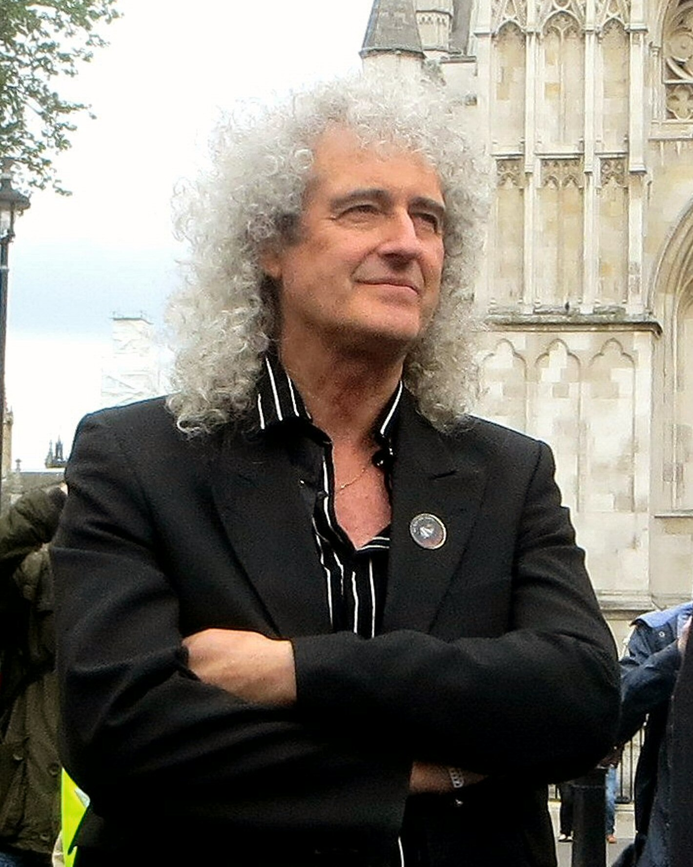 Brian May leads an anti badger cull demo in London, June 2013